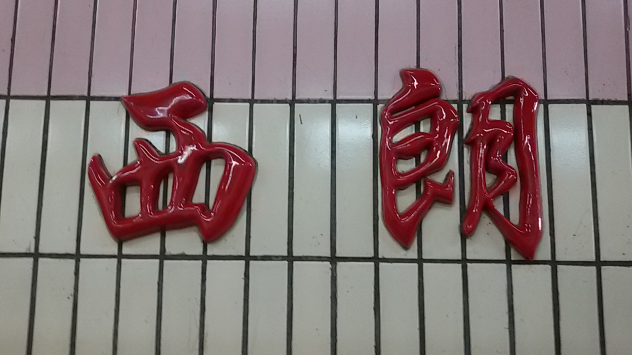 BIG WORD for Xilang Station in Guangzhou Metro.